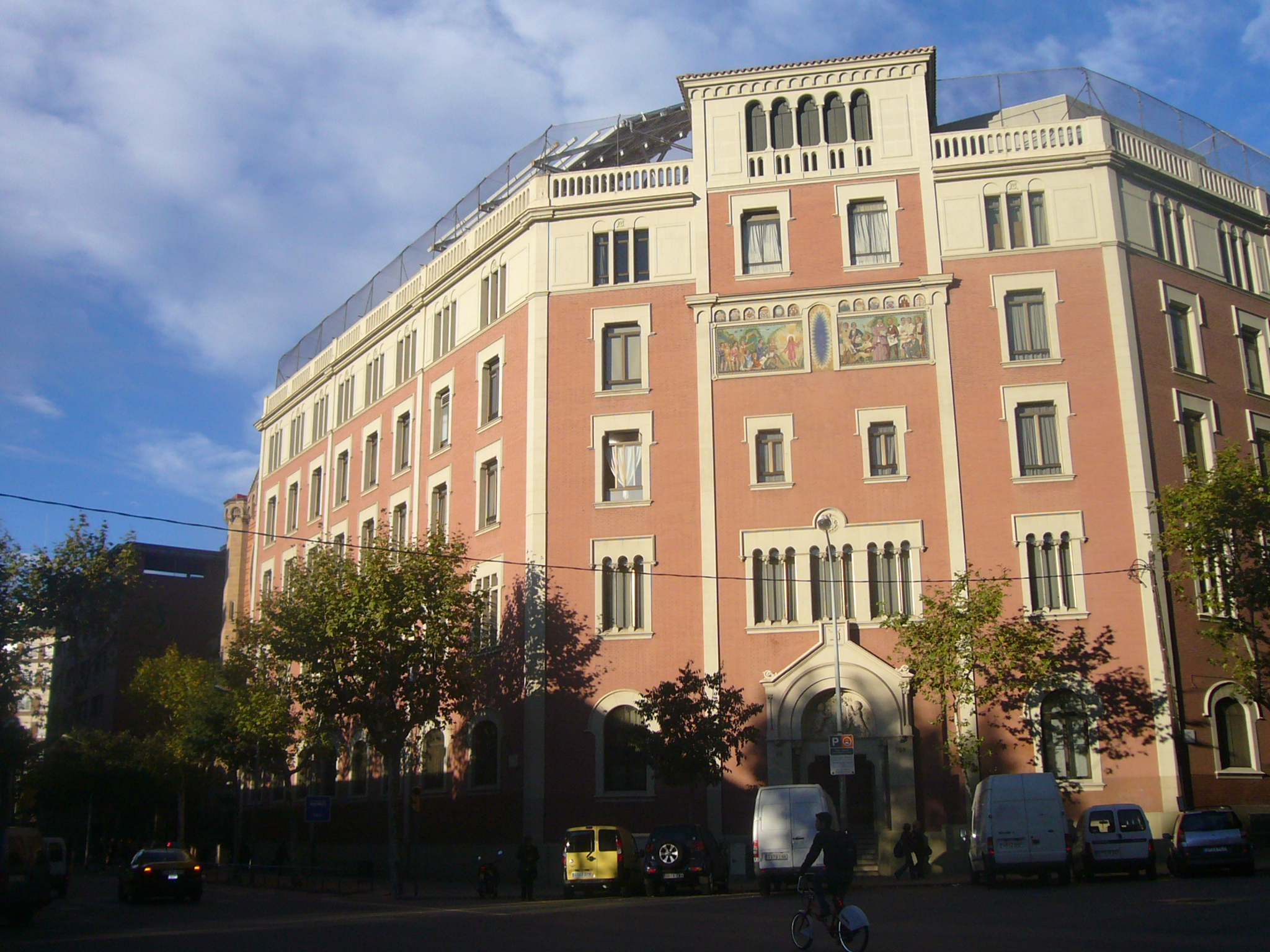 Claret school, in Barcelona. Street: Sant Antoni Maria Claret - Sícilia. District of Gracia.